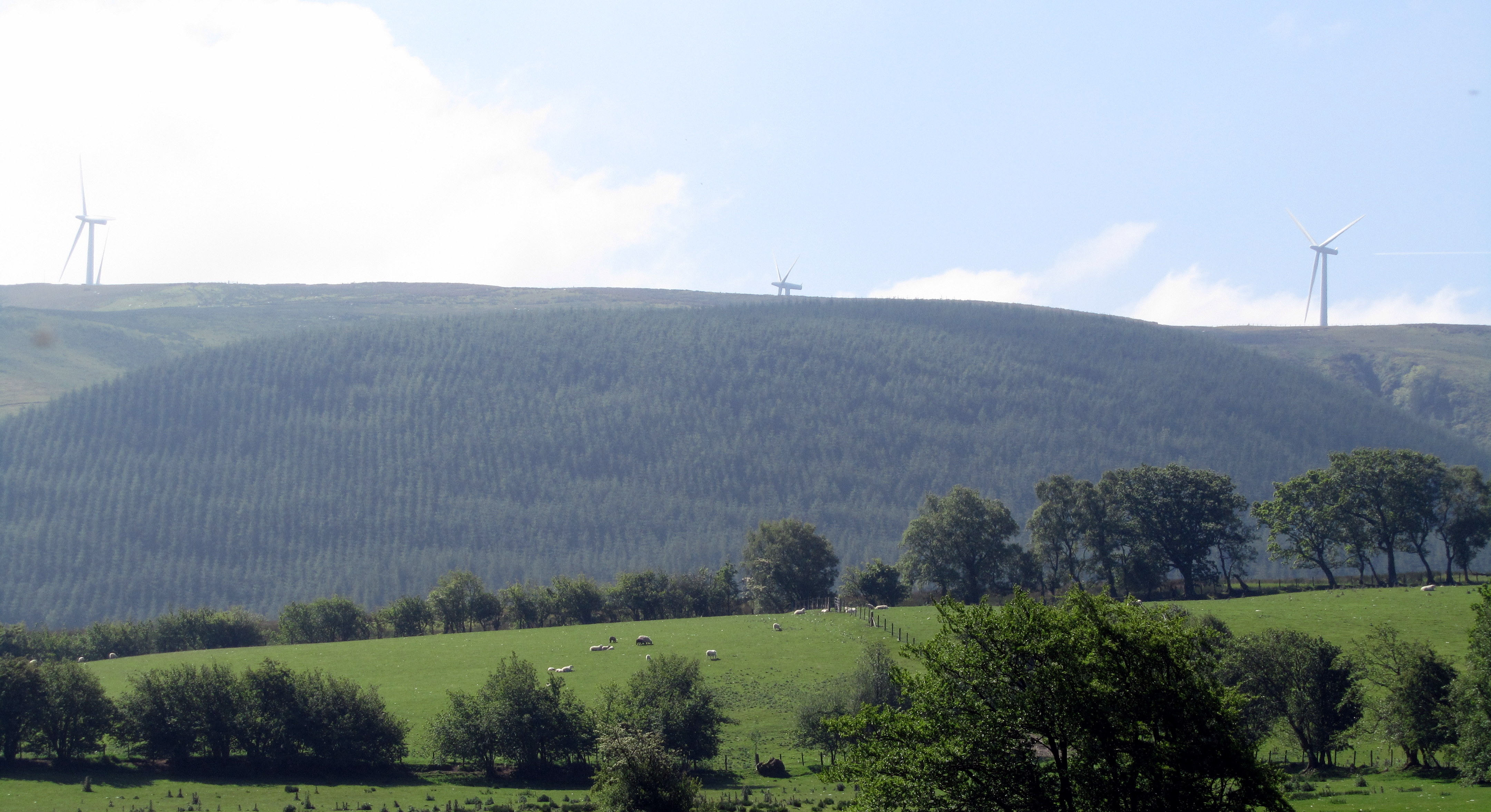 Carno 2 wind farm